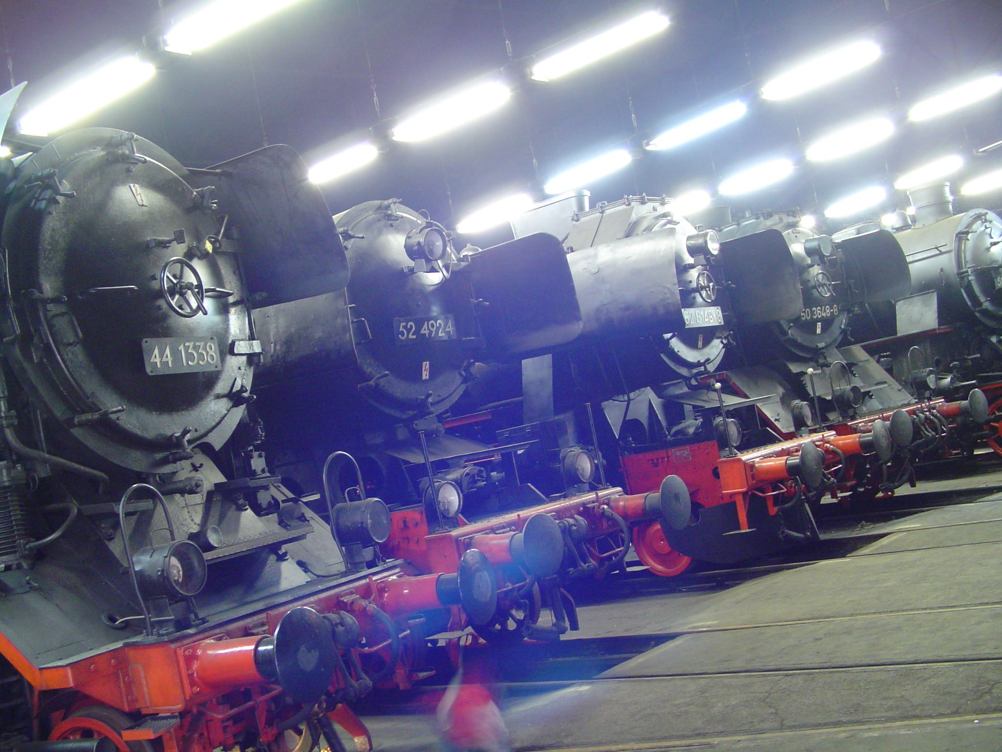 Locomotive roundhouse at the Saxon Railway Museum (Sächsisches Eisenbahnmuseum), Chemnitz, Germany showing some of their German steam locomotives.